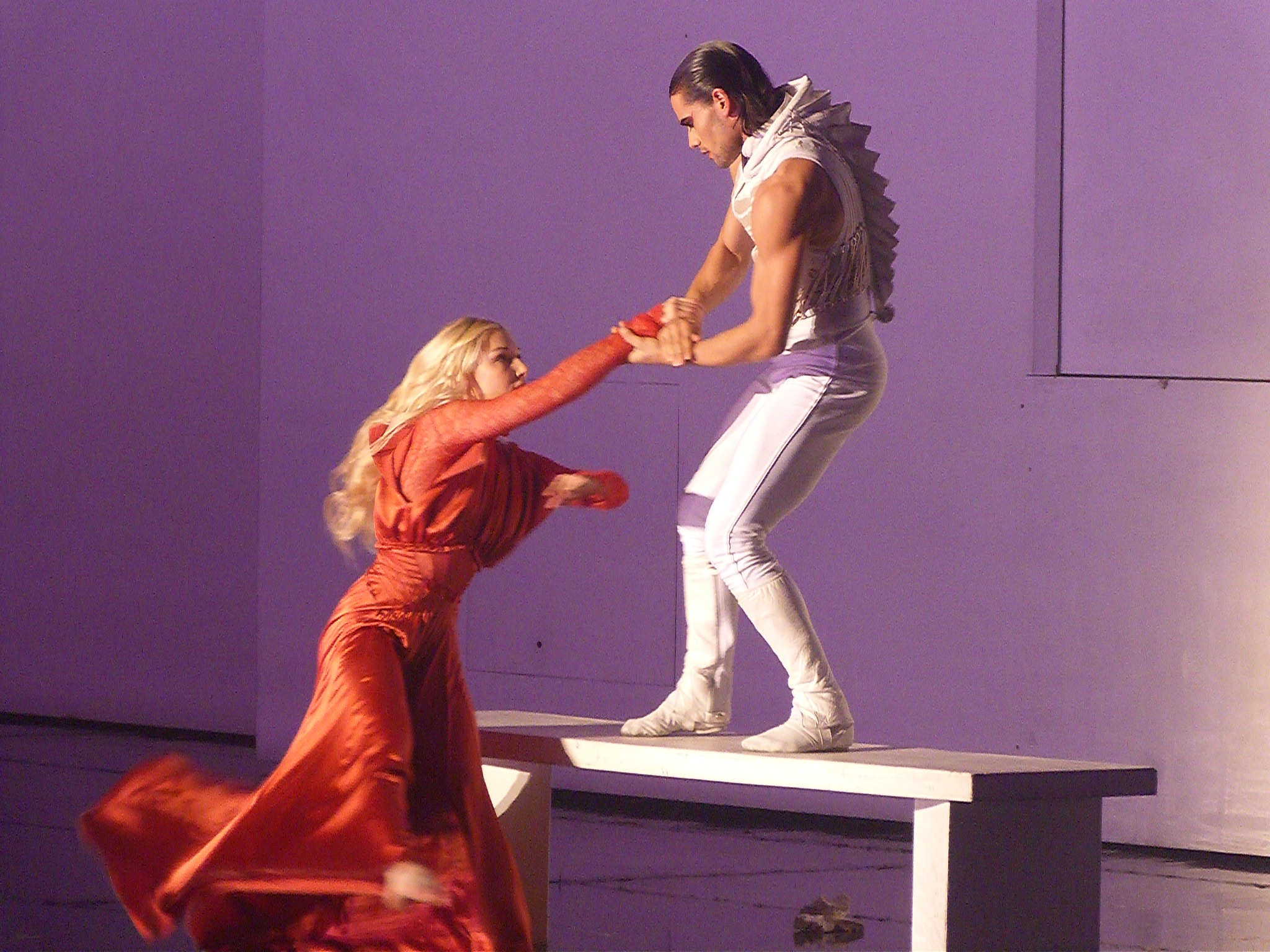 Picture of the Musical Dracula : Mina and Dracula(Nathalie Fauquette and Golan Yosef)